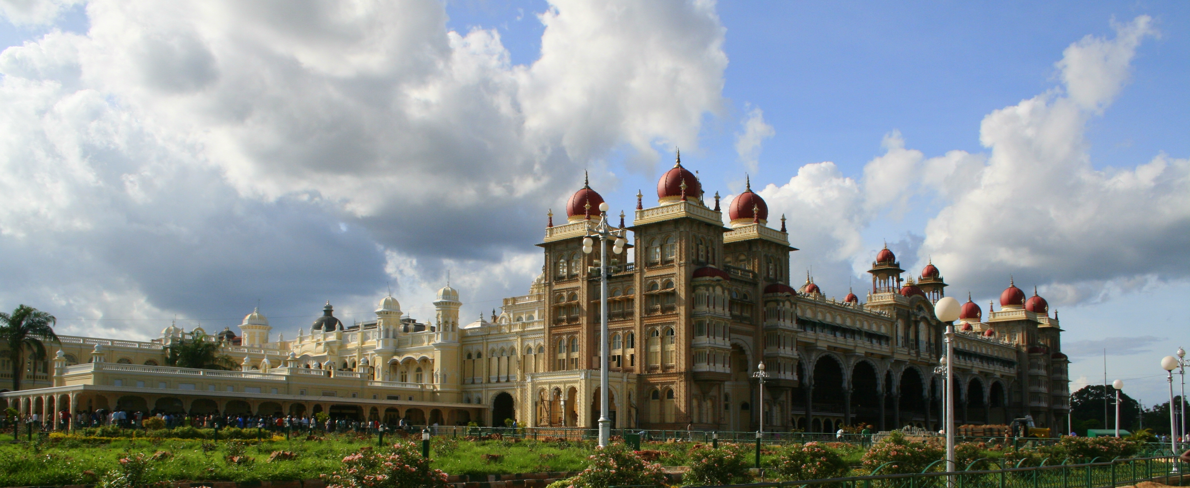 Mysore Palace